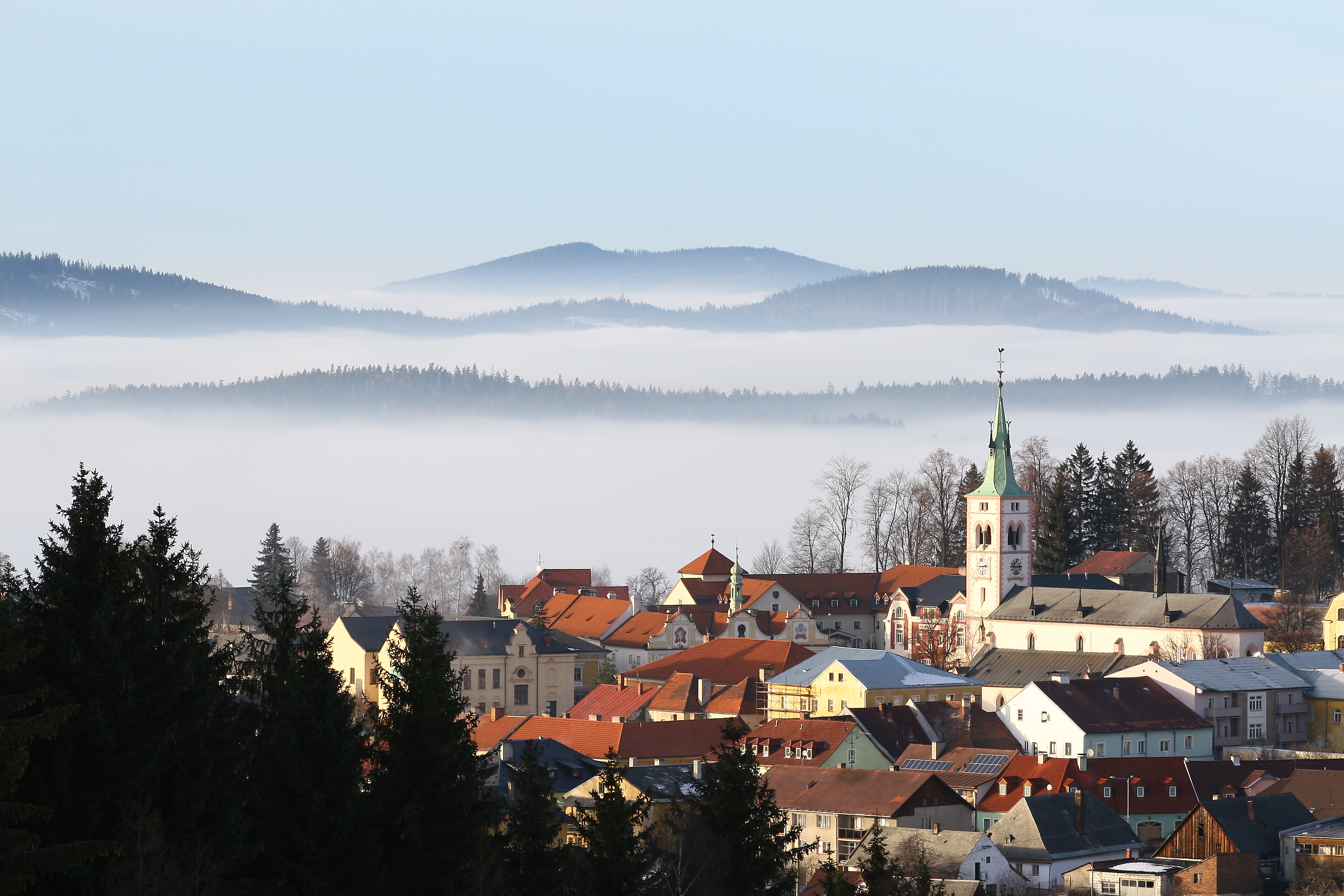 Town of Kašperské Hory with St Margaret church as seen from the Liščí vrch (794 m).